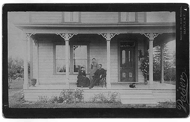 Printed on mount: Peiser, Second St., Near Marion, Seattle, W.T . Handwritten on verso: 'Rosedale,' June 16, 1888. Capt. and Mrs. S.P. Randolph, Edith Randolph. No. 1018 Columbia St., Seattle . Peiser 10068 Subjects (LCTGM): Randolph, S. P.--Homes & haunts--Washington (State)--Seattle; Dwellings--Washington (State)--Seattle